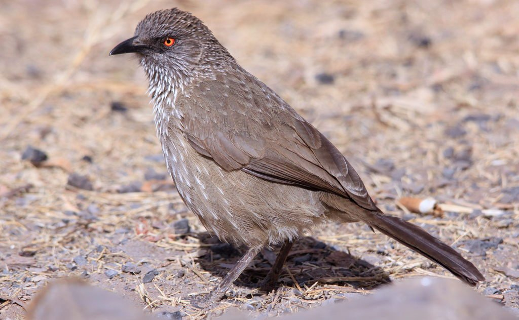 Arrow-marked Babbler, Turdoides jardineii at Marakele National Park, South Africa